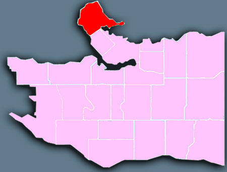 Stanley Park's location in Vancouver.